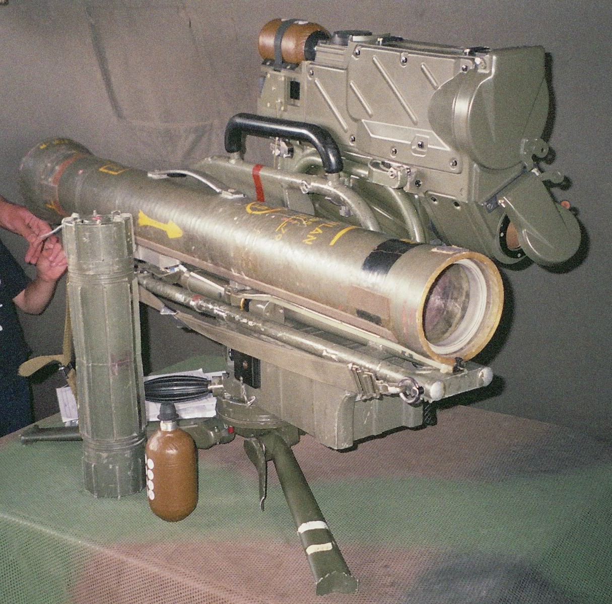 Nation/Defense days, Esplanade des Invalides, Paris, France, September 24-25, 2005